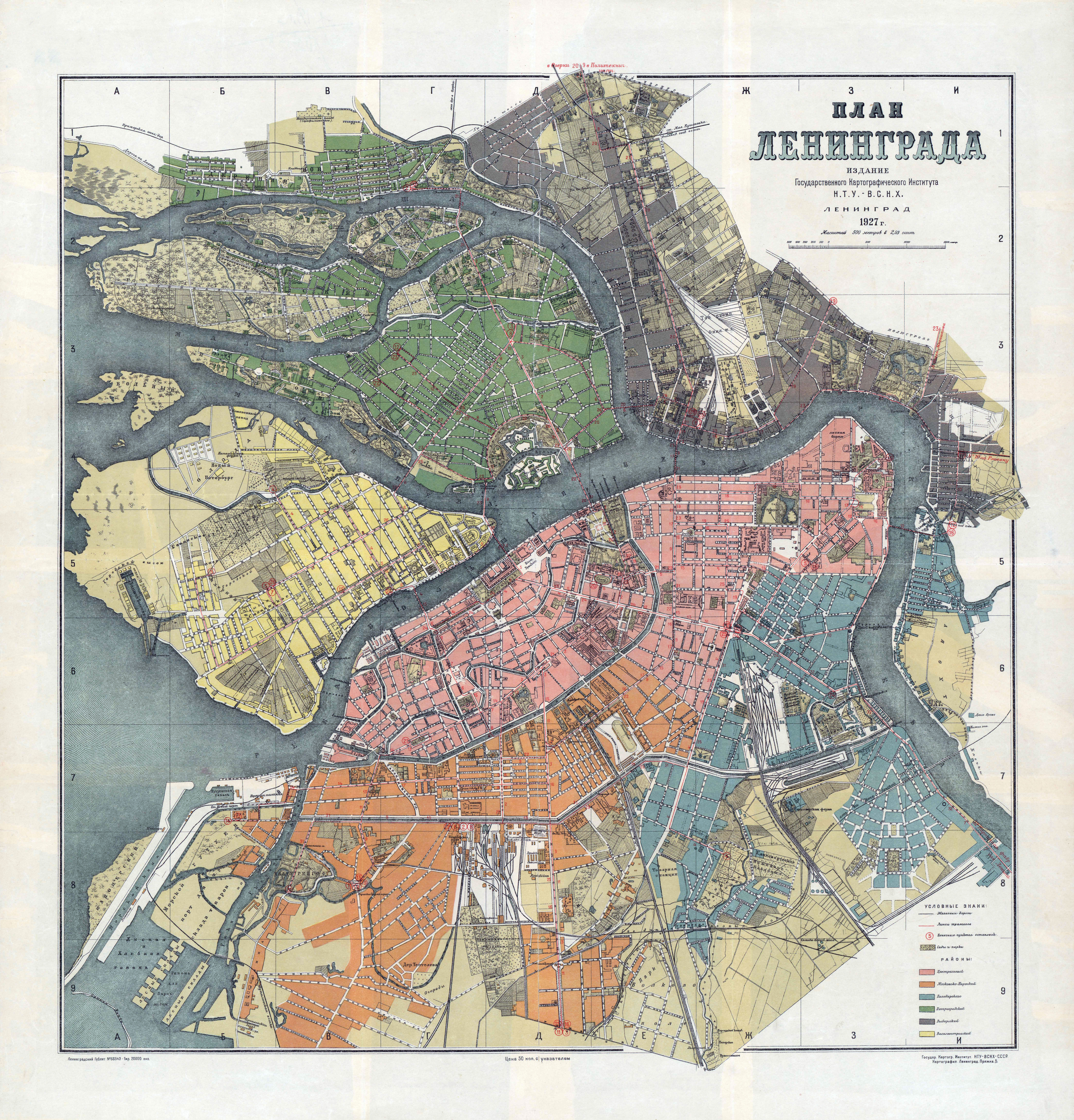 Map of Leningrad (Russia)